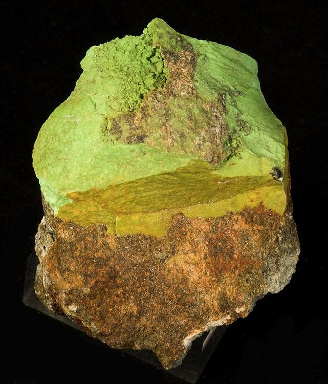 Gaspéite Locality: 132 North Mine, Widgiemooltha, Western Australia, Australia (Locality at ) Size: 6.0 x 4.4 x 2.6 cm. Gaspeite is a rare nickel, magnesium, iron carbonate. It seldom crystallizes. This rich and fine, two-sided specimen features striking, lime-green gaspeite in massive form. However, it also features a pocket with rounded aggregates of microcrystals, taking up the upper half of this fine piece. This very rich, highly representative specimen is from the 132 North Nickel Mine of Western Australia.